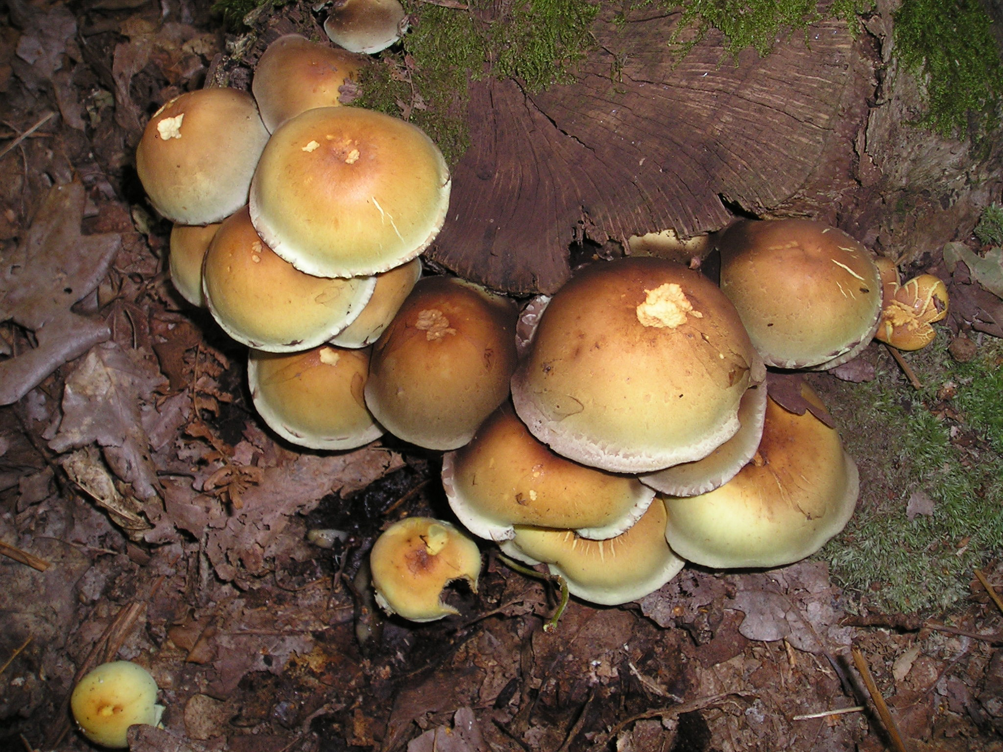 Hypholoma fasciculare ("Sulphur Tuft") in a French wood near Paris.